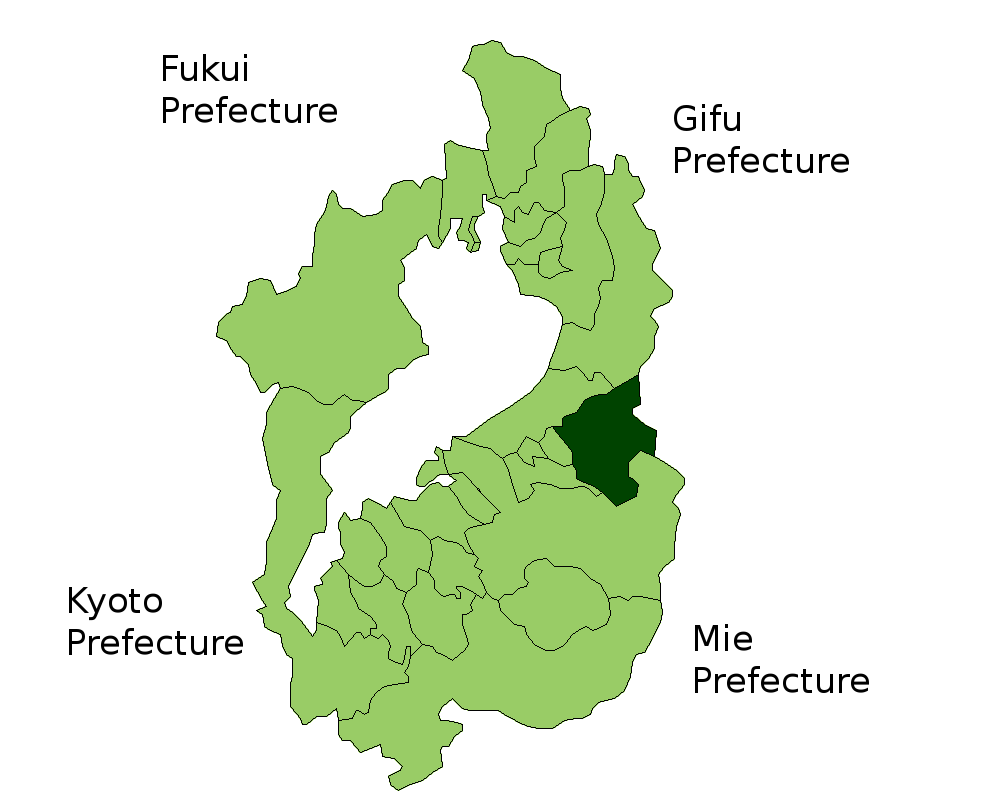 Location Map of Taga in Shiga Prefecture, Japan